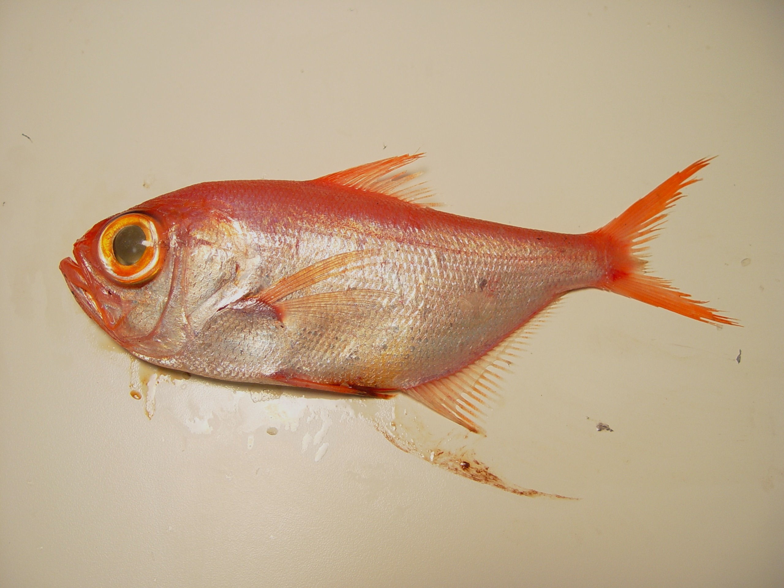 Splendid alfonsino or slender alfonsino ( Beryx splendens )